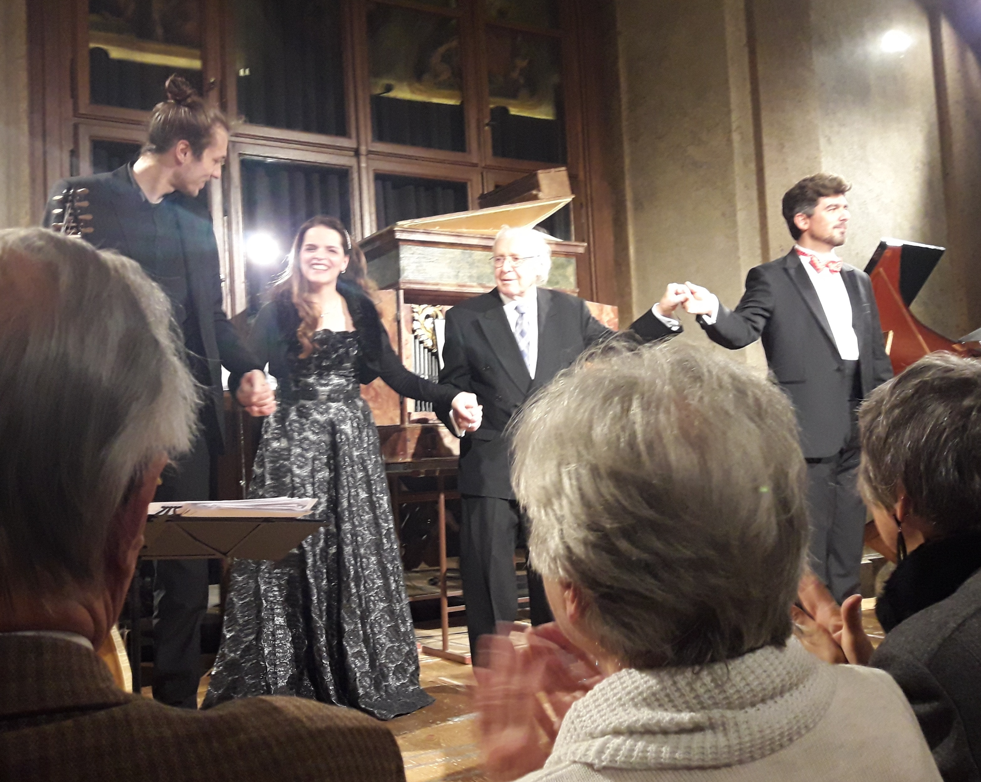 Clemencic Consort at Palais Lobkowitz Eroica Hall in Vienna on Dec. 16, 2017: René Clemencic with Marelize Gerber, Nicholas Spanos, and David Bergmüller